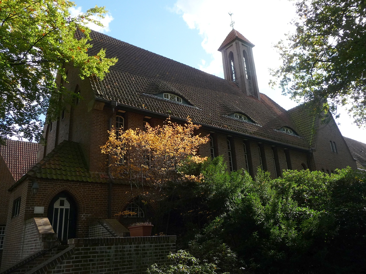 Church of the Egestorff-Stiftung in Bremen-Tenever